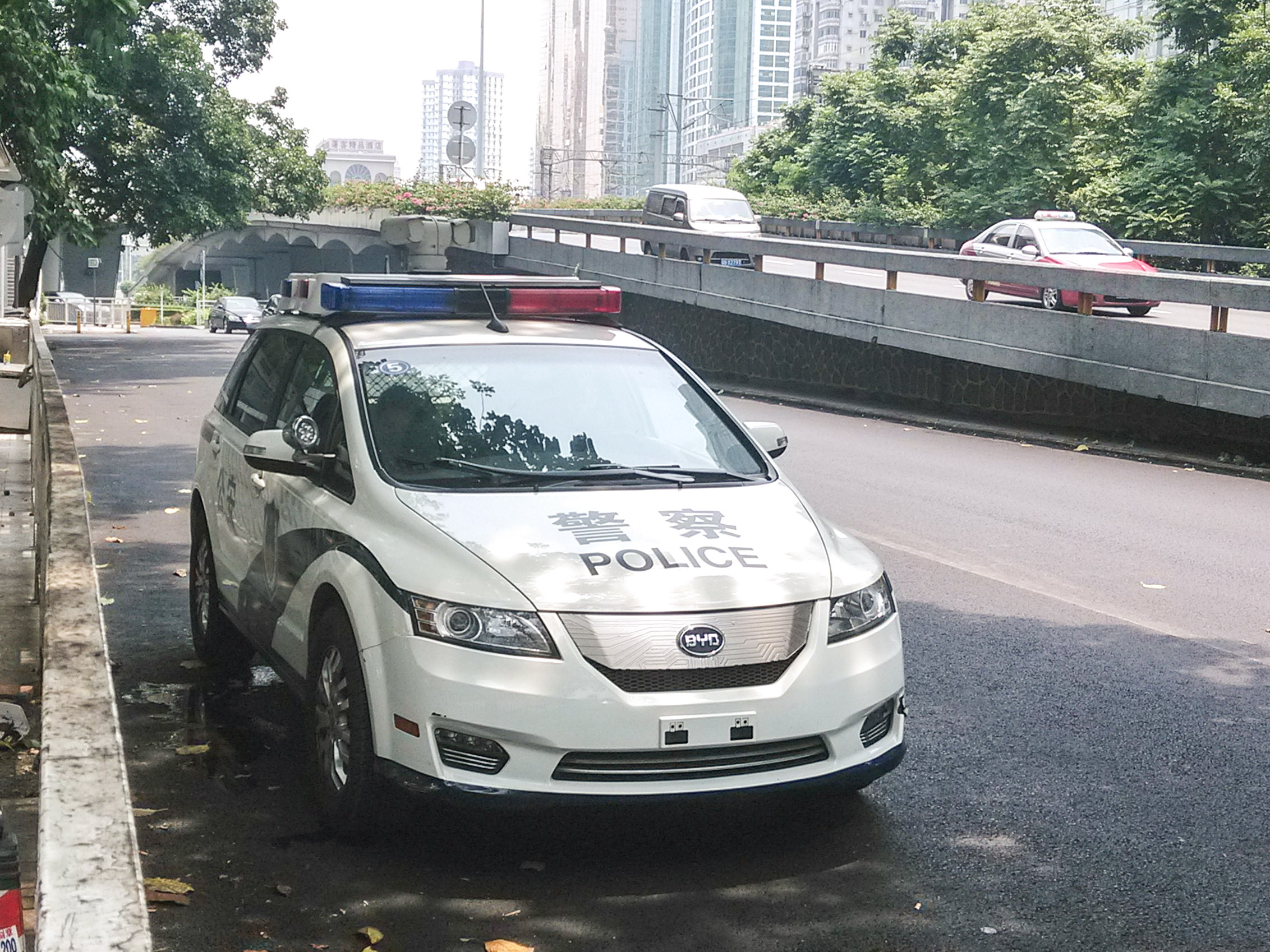 BYD e6 police car in Shenzhen, China